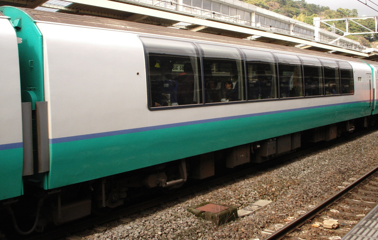 JR East 251 series EMU MoHa 250 motor car at Atami Station